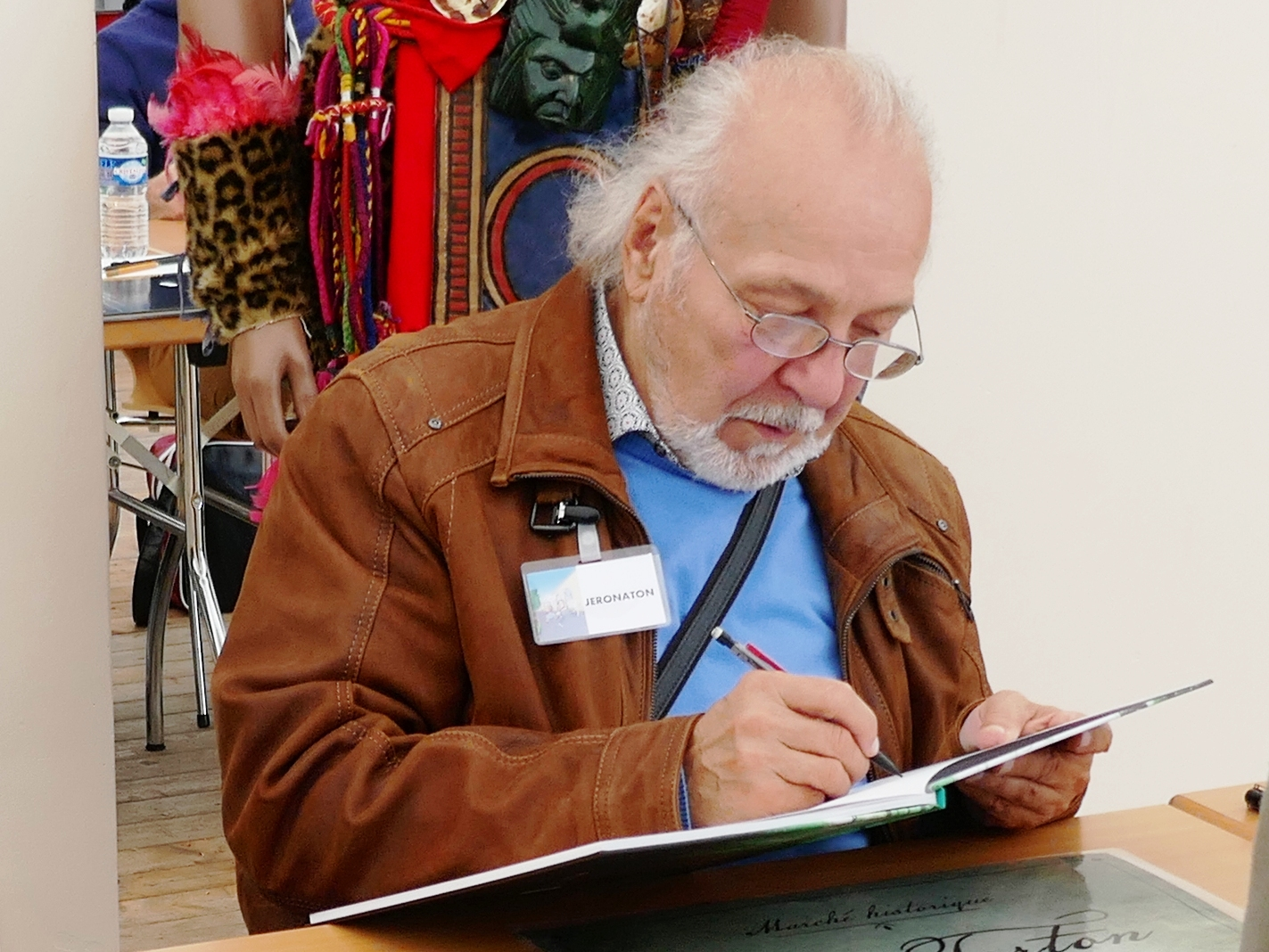 Jeronaton signing El Nakom at Festival de la BD, Buc (2017)